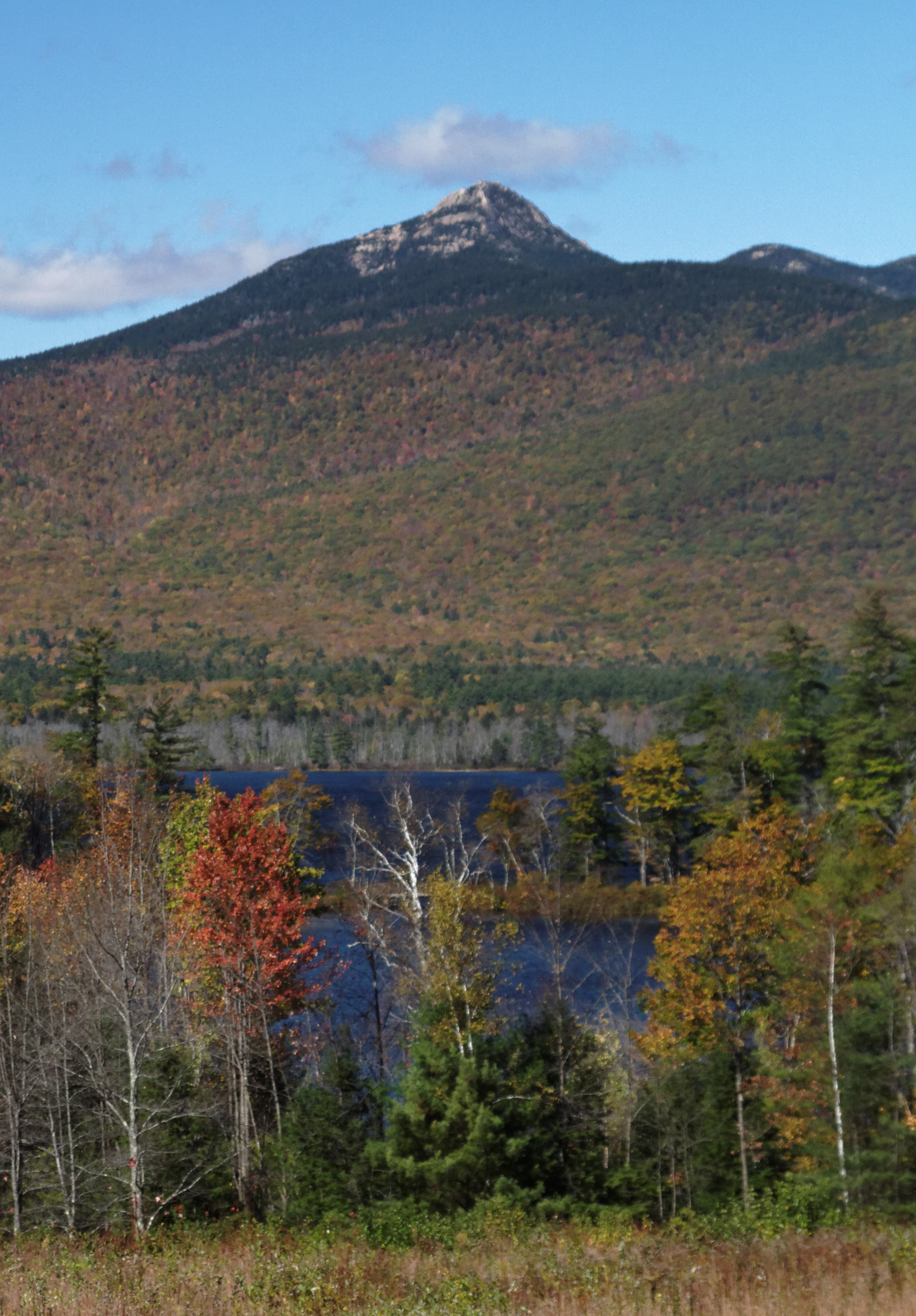 Cropped version of the original file "Mount Chocorua and Chocorua Lake"